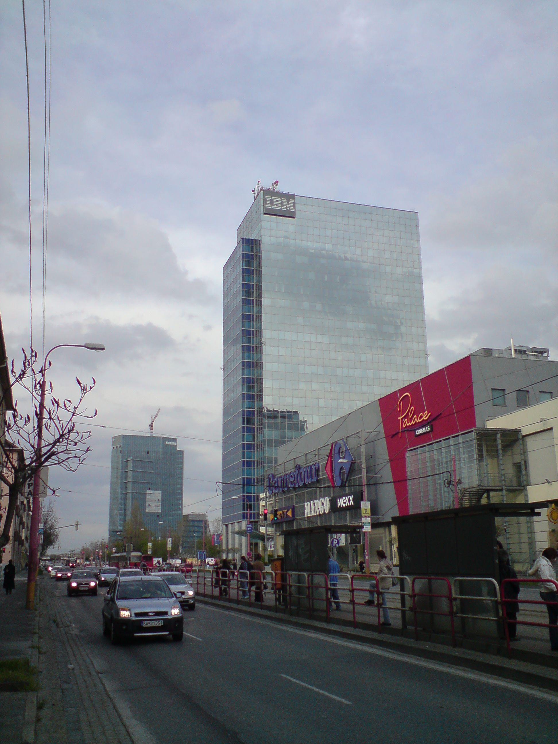 Millennum Tower II and Lakeside Park I